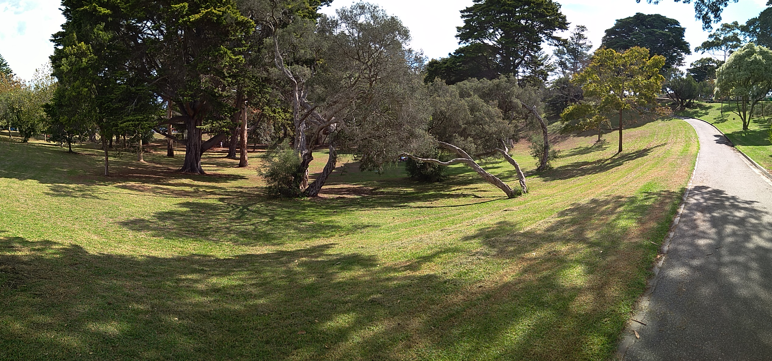 View of the park at Sorrento on the Mornington Peninsula.